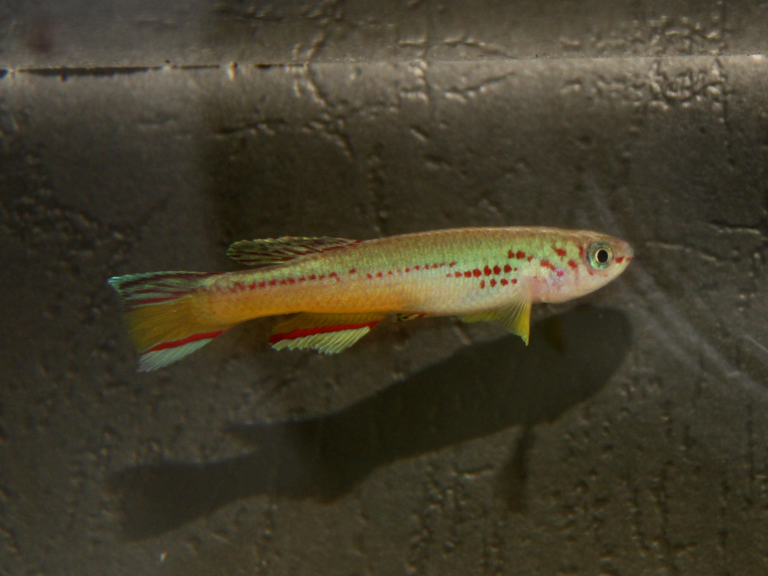 Juvenile male of Fundulopanchax amieti from the south of the Sanaga river in Cameroon.